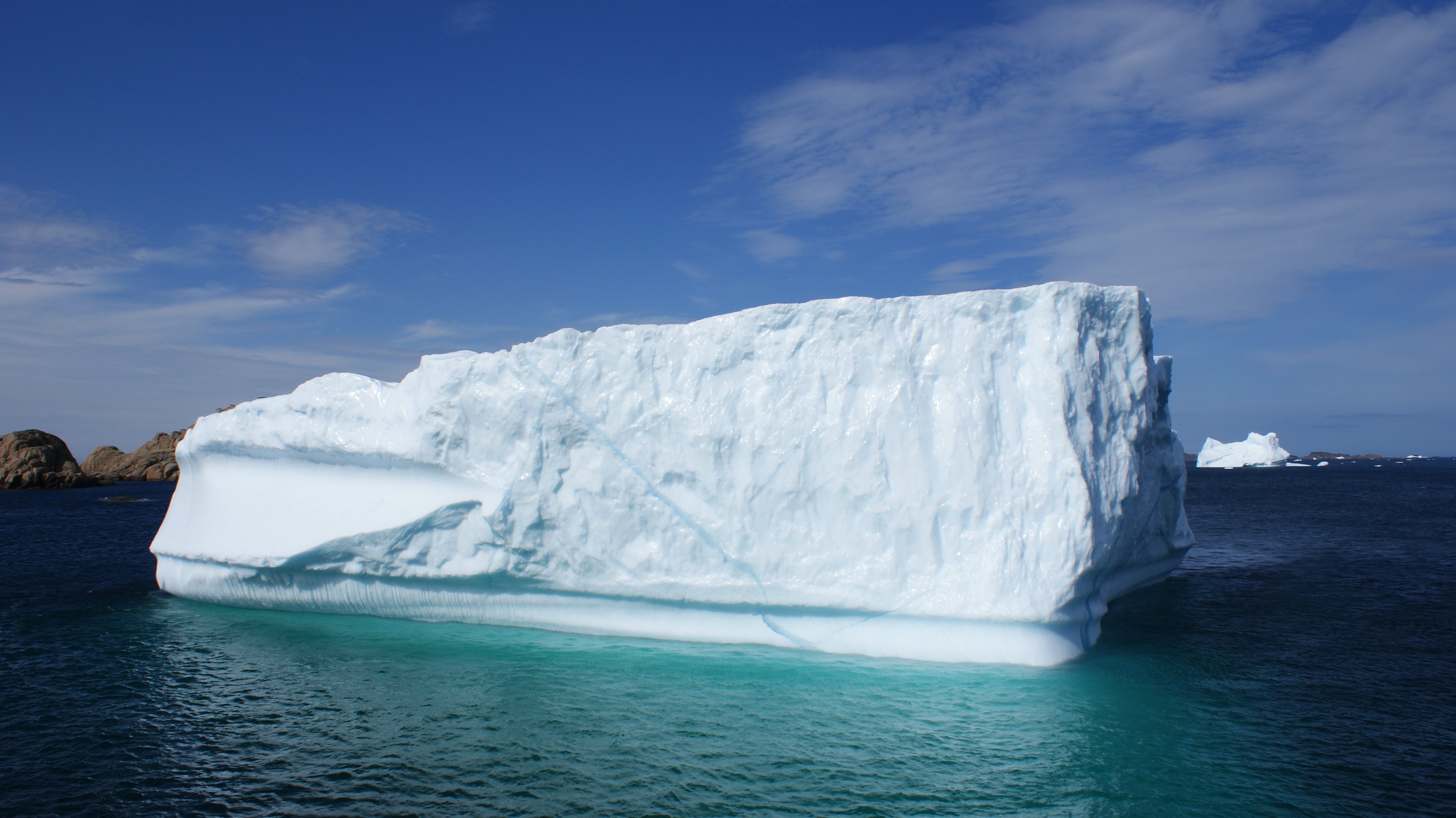 Iceberg in Labrador Sea at the mouth of Alanngorsuaq Fjord in southwestern Greenland. Photographed from Sarfaq Ittuk ship of Arctic Umiaq Line.